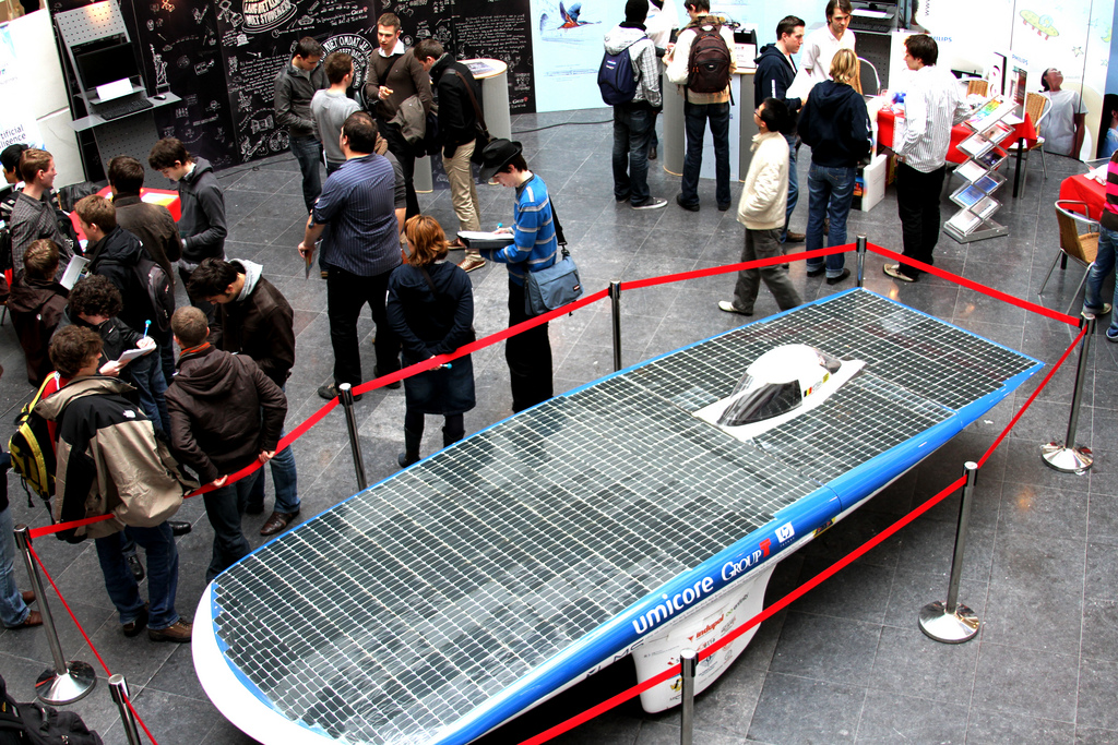 groept, groupt, groep t, group t